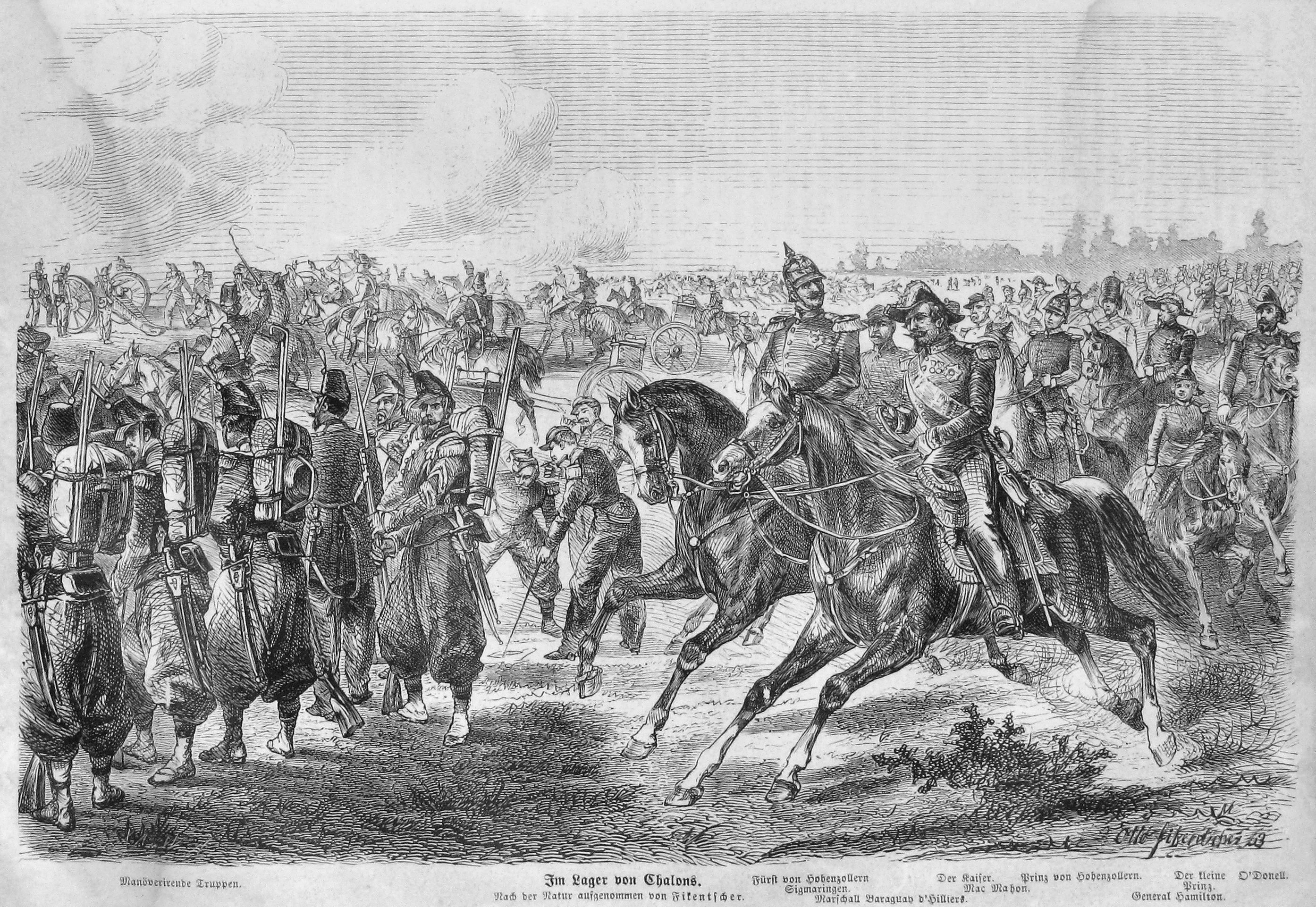 caption: "Im Lager von Chalons. Manöverirende Truppen Nach der Natur aufgenommen von Fikentscher. Fürst von Hohenzollern Sigmaringen. Marschall Baraguay d’ Hilliers. Der Kaiser. Mac Mahon. Prinz von Hohenzollern. General Hamilton. Der kleine Prinz. O’Donell."